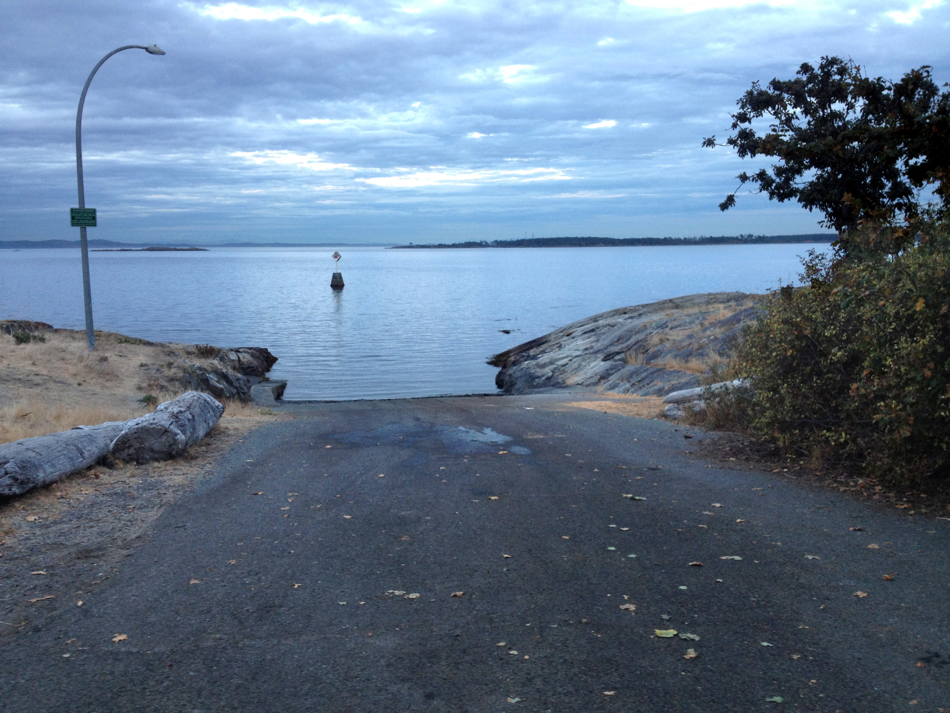 Slipway